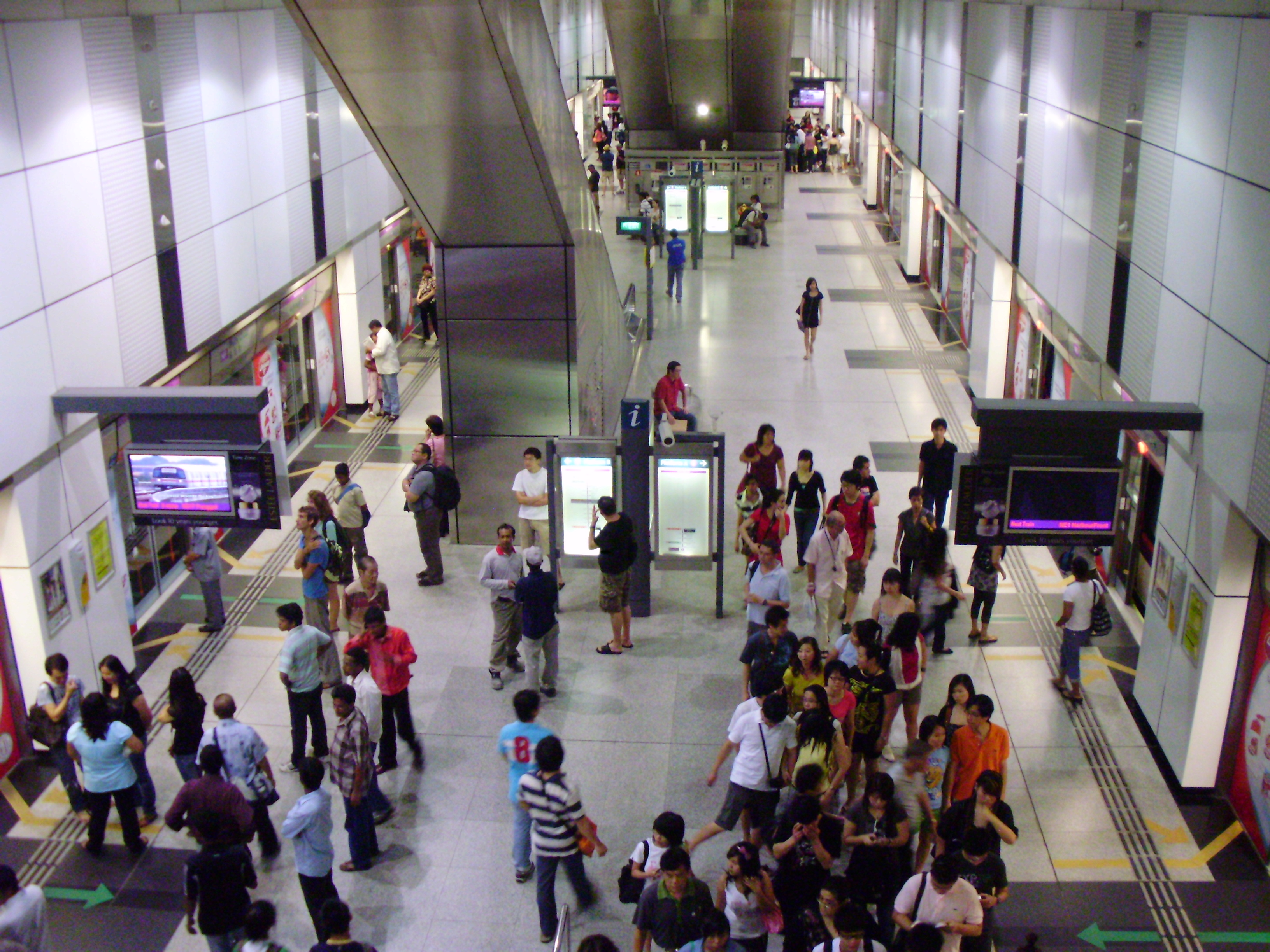 Dhoby Ghaut Interchange in 2010